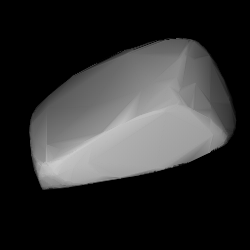 3D convex shape model of 958 Asplinda, computed using light curve inversion techniques. J. Hanuš, J. Ďurech, M. Brož, B. D. Warner (June 2011). "A study of asteroid pole-latitude distribution based on an extended set of shape models derived by the lightcurve inversion method". Astronomy and Astrophysics 530: A134. ISSN 0004-6361. arXiv